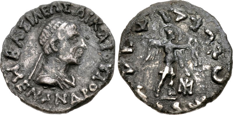 Menander II bareheaded